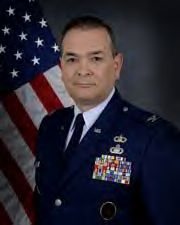 Colonel Evelio Otero, Jr..